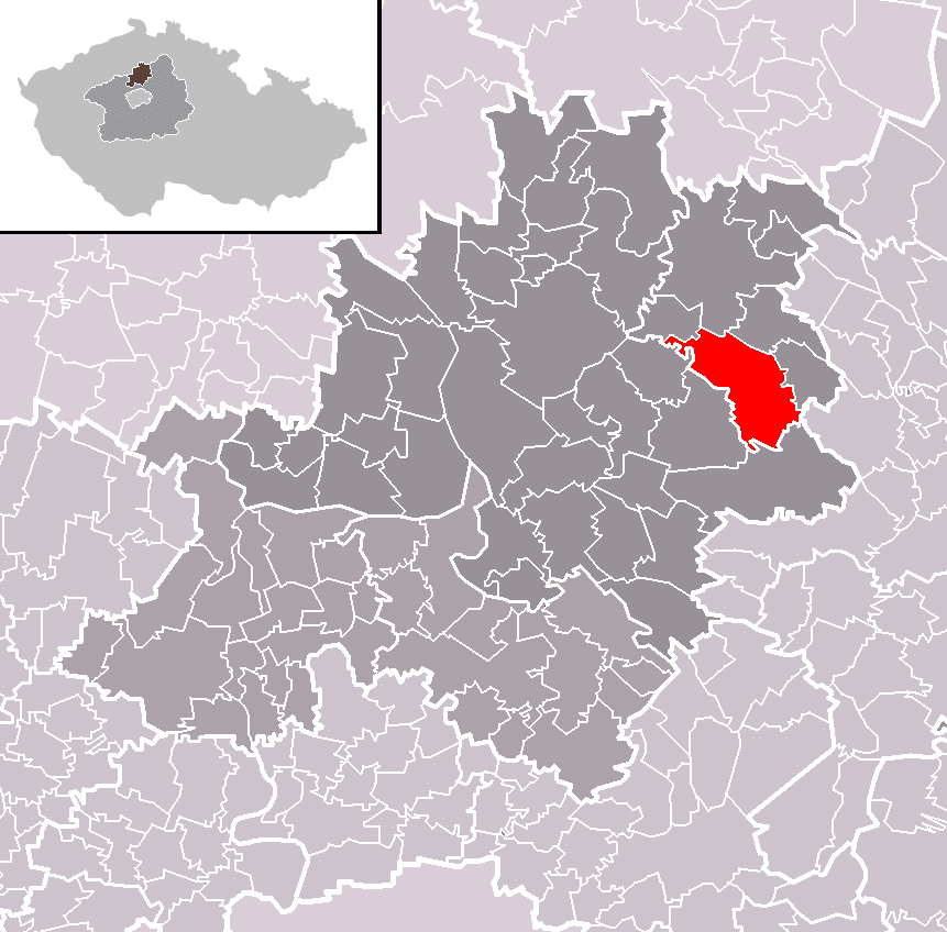 Location of Chorušice municipality within Mělník District and administrative area of Mělník as a Municipality with Extended Competence.